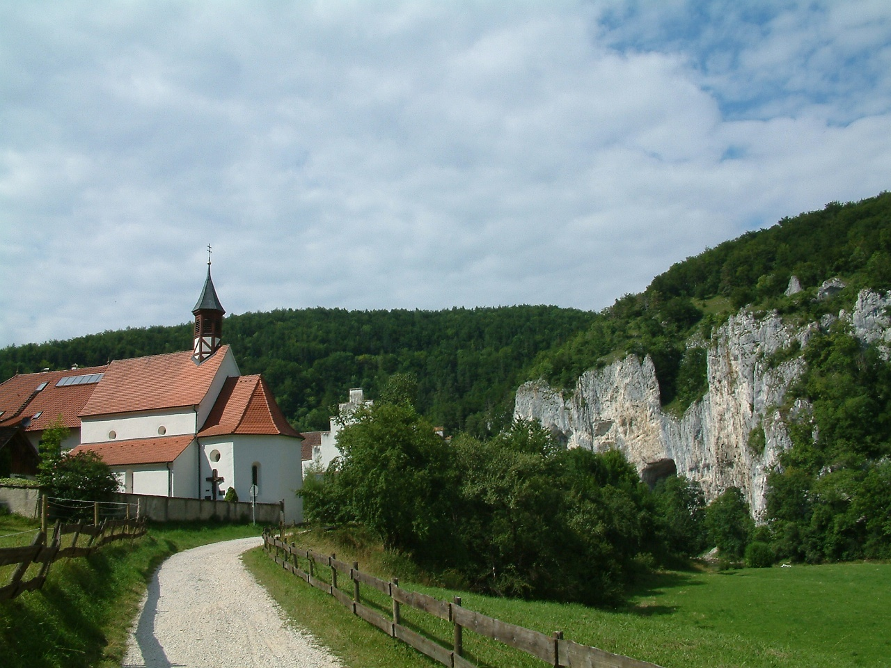 Thiergarten (Beuron) - Chapel St. Georg in Upper Danube Valley in Germany